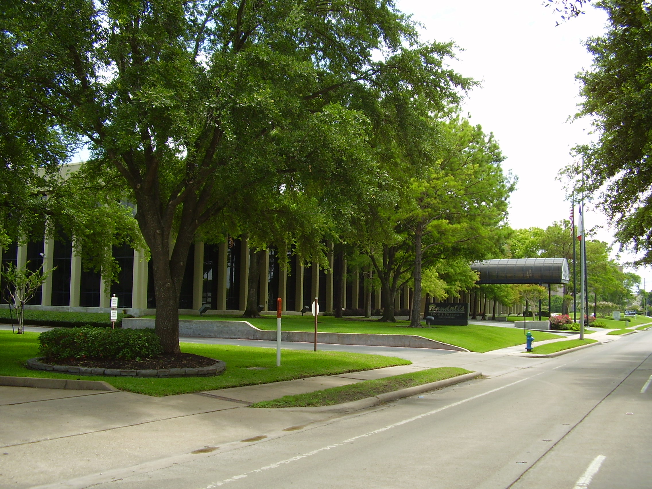 Randall's Food Markets headquarters (Safeway Inc. Texas offices) - Westchase, Houston